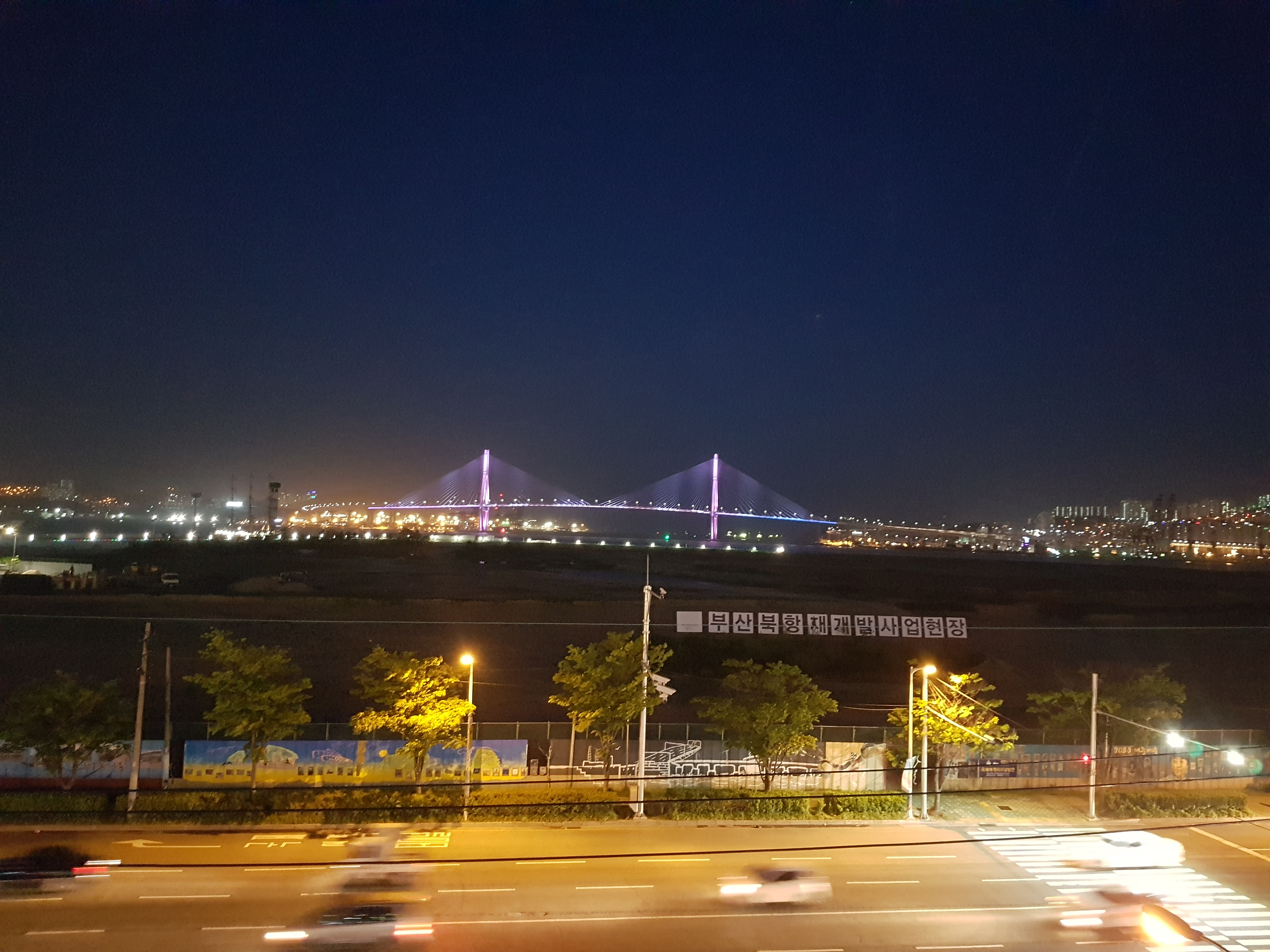 Busan Harbor Bridge